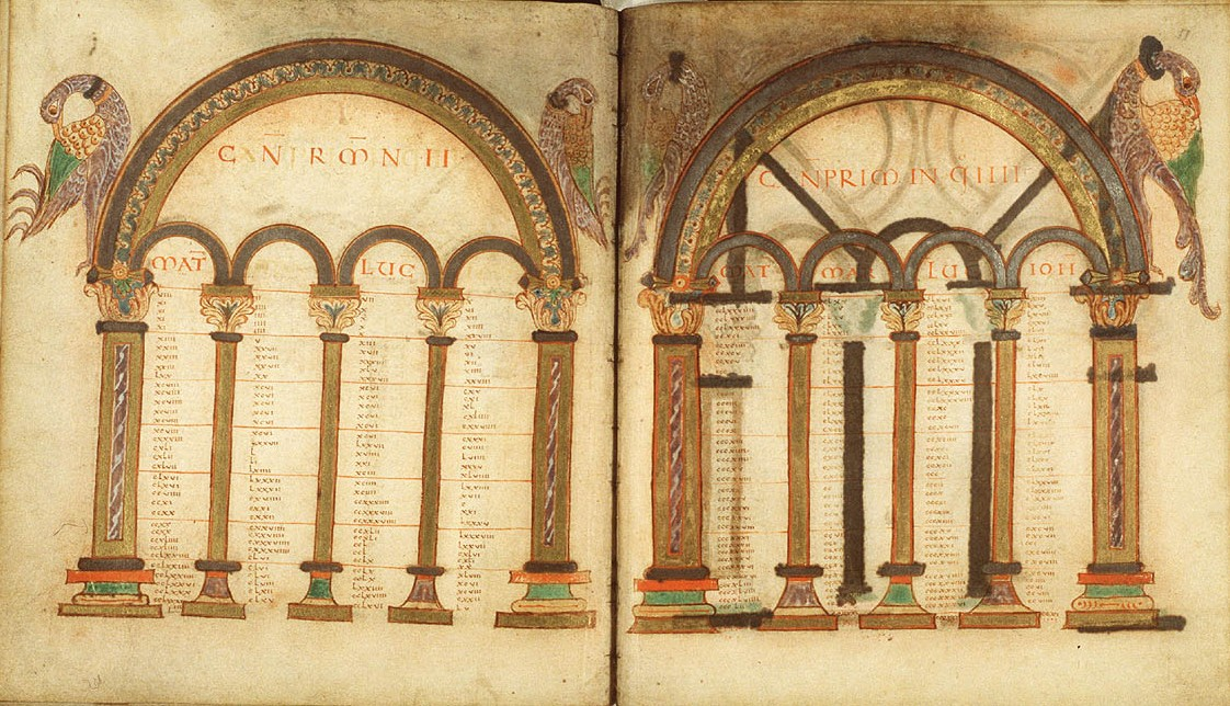 fol. 10v and 11r of the Egmond Gospels. Canon tables